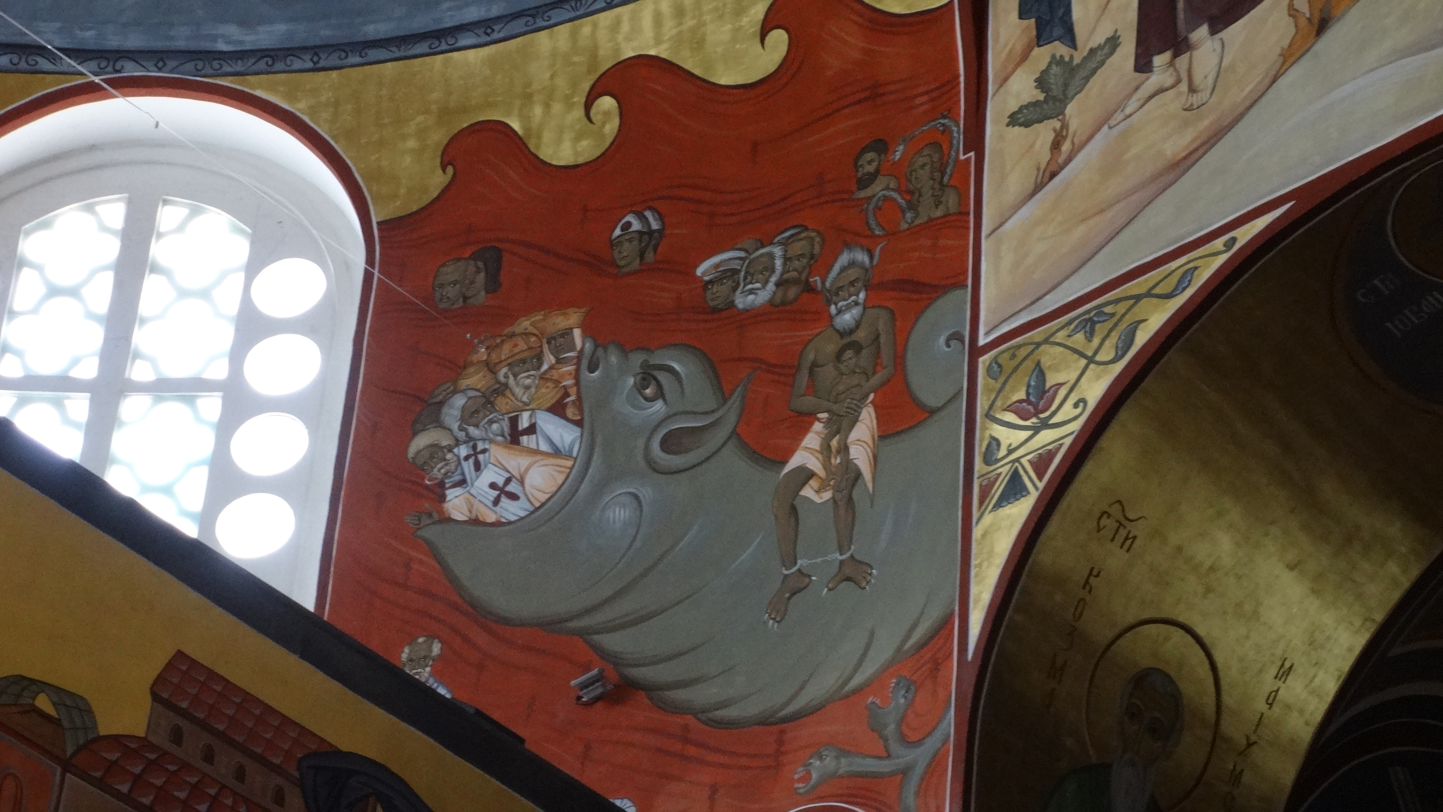 Cathedral of the Resurrection of Christ in Podgorica (Montenegro): Marx, Engels and Tito in hell